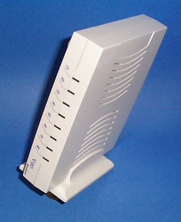 Creatix Voice Modem V90 front side